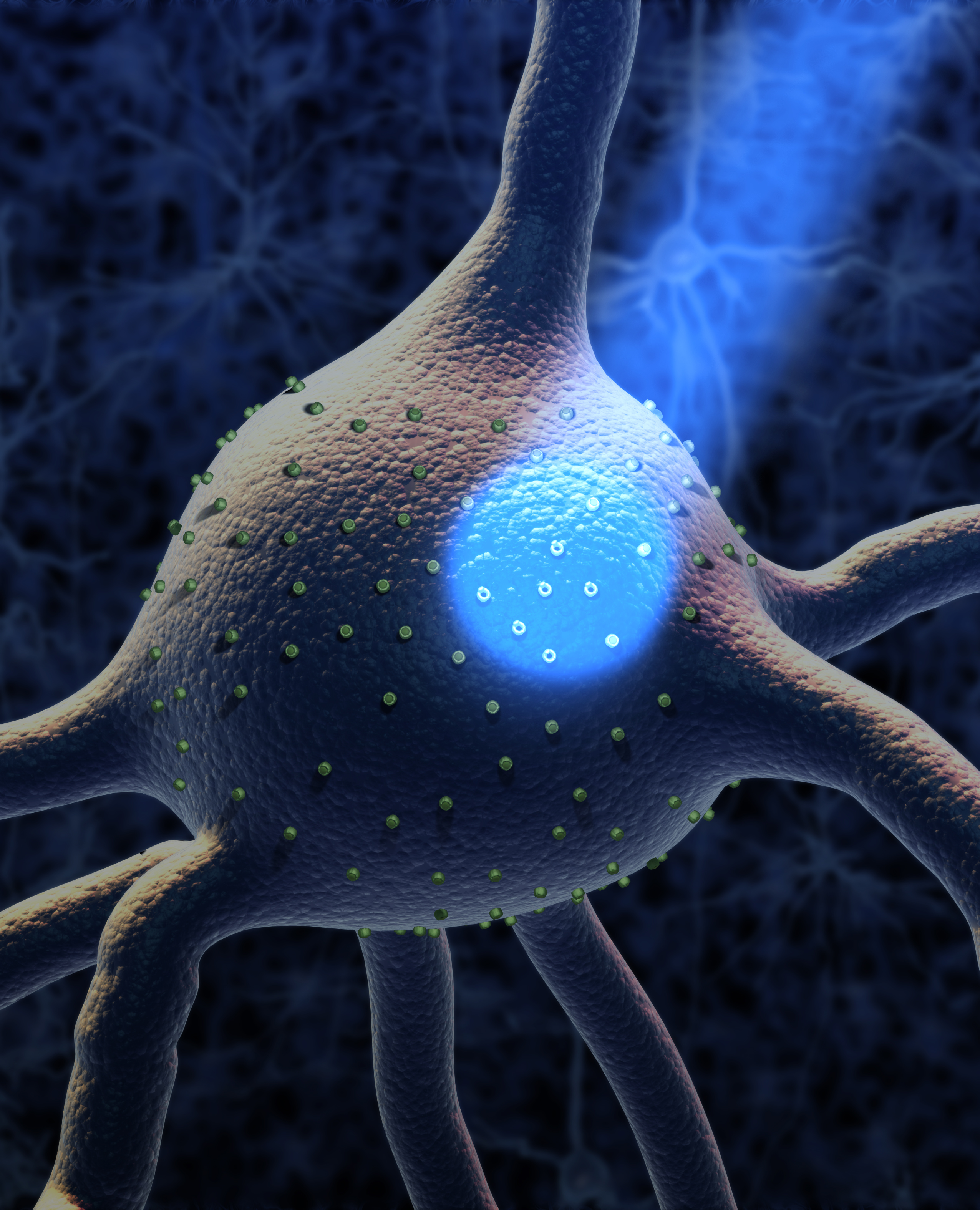 HANDOUT -- ONLY FOR USE WITH STAT OPTOGENETICS STORY ** A neuron expressing the protein channelrhodopsin is activated by light. (McGovern Institute for Brain Research at MIT)